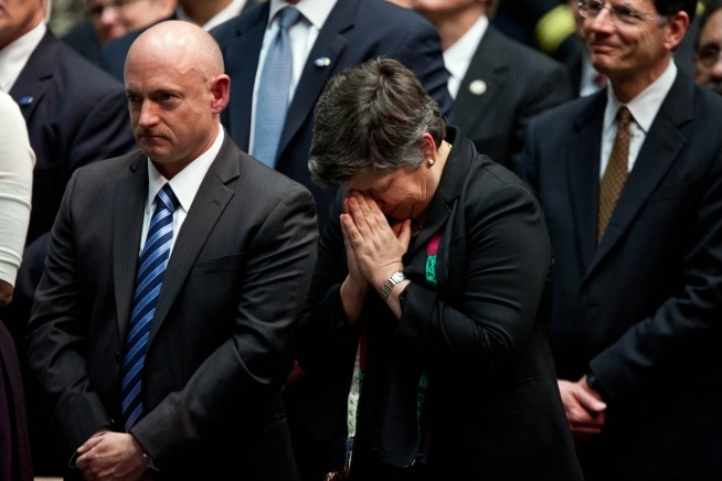 Astronaut Mark E. Kelly, husband of U.S. Representative Gabrielle Giffords, and Janet Napolitano at a memorial event dedicated to the victims of the 2011 Tucson shooting.